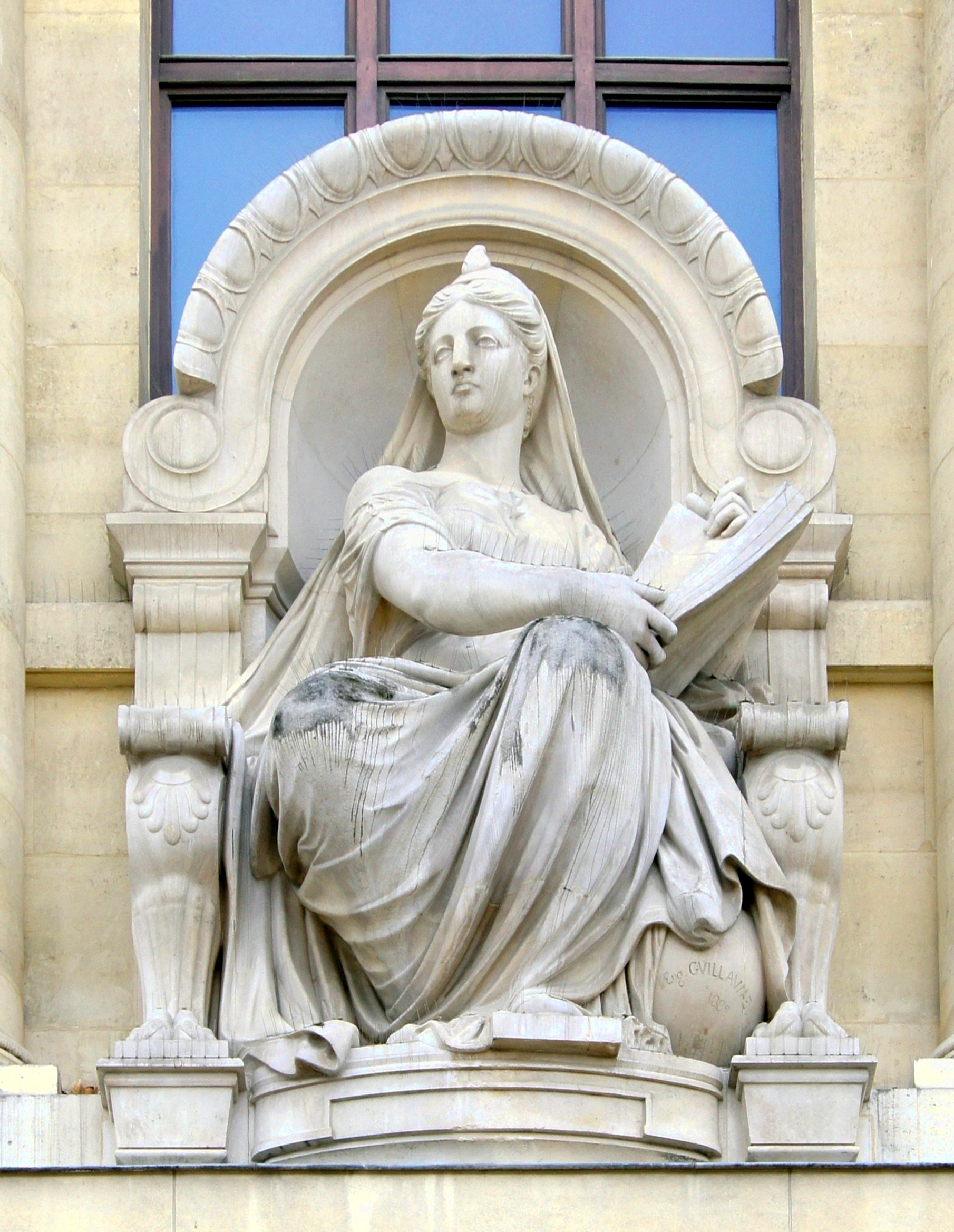 "Science", by Eugène Guillaume. Statue on the façade of the grande galerie de l'Évolution, in the Jardin des plantes, in Paris.